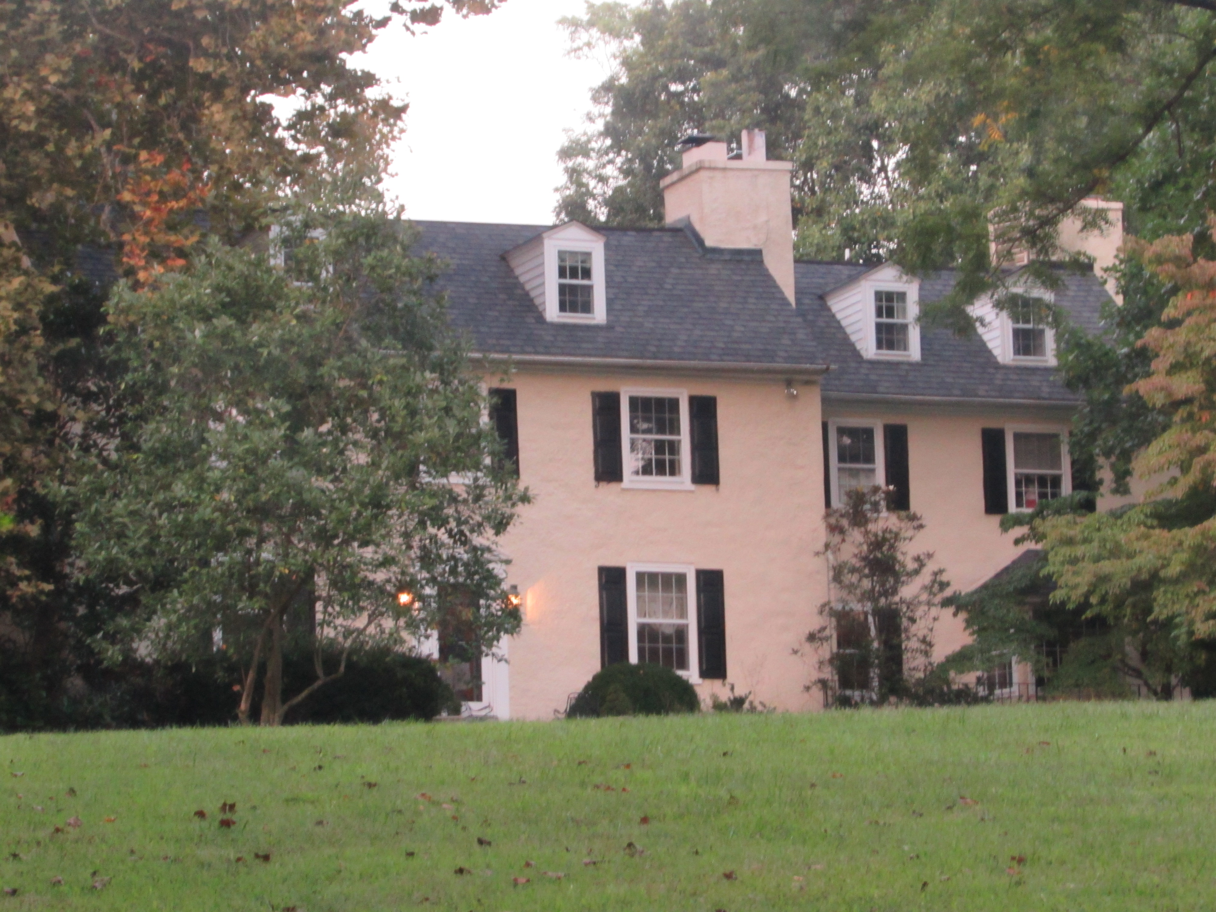 House formerly owned by the ironmaster Alan Wood, seen at sunset. A contributing property to the Wooddale Historic District, on the National Register of Historic Places in Hockessin, Delaware, the house looks out on the former site of Wood's Delaware Iron Works, on the Red Clay Creek.